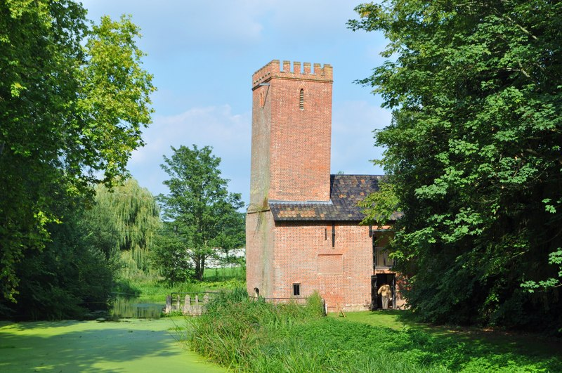 Euston watermill, Euston, Suffolk, England. The unusual mill seen from an ornate bridge.